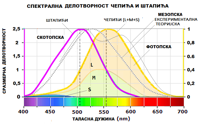 СПЕКТРАЛНА ДЕЛОТВОРНОСТ СЈАЈА ЉУДСКОГ ОКА